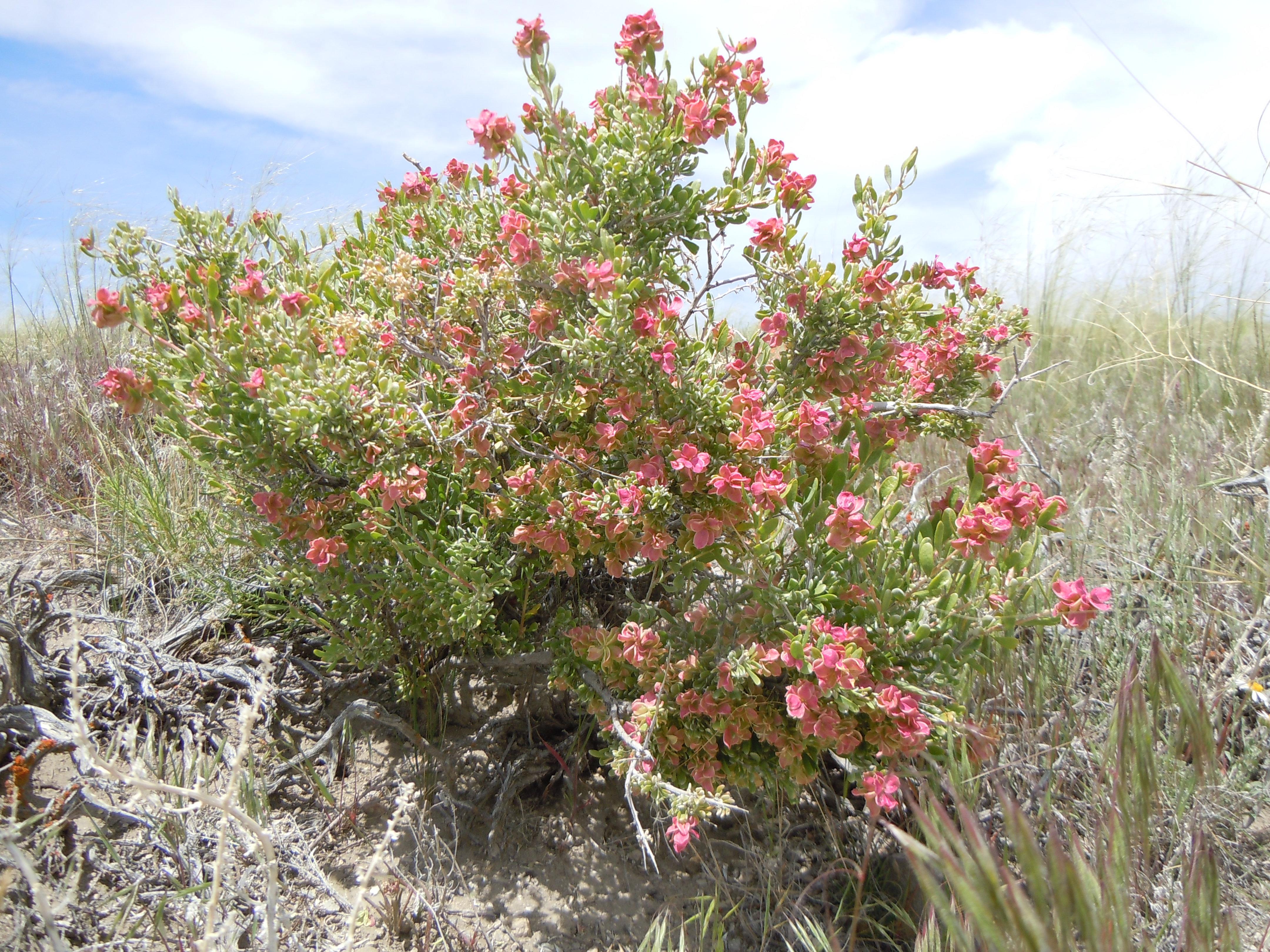 The reddish bracts of the inflorescence contrast against the grayish green foliage and stripped bark of the twigs in this very distinctive member of the sagebrush steppe.